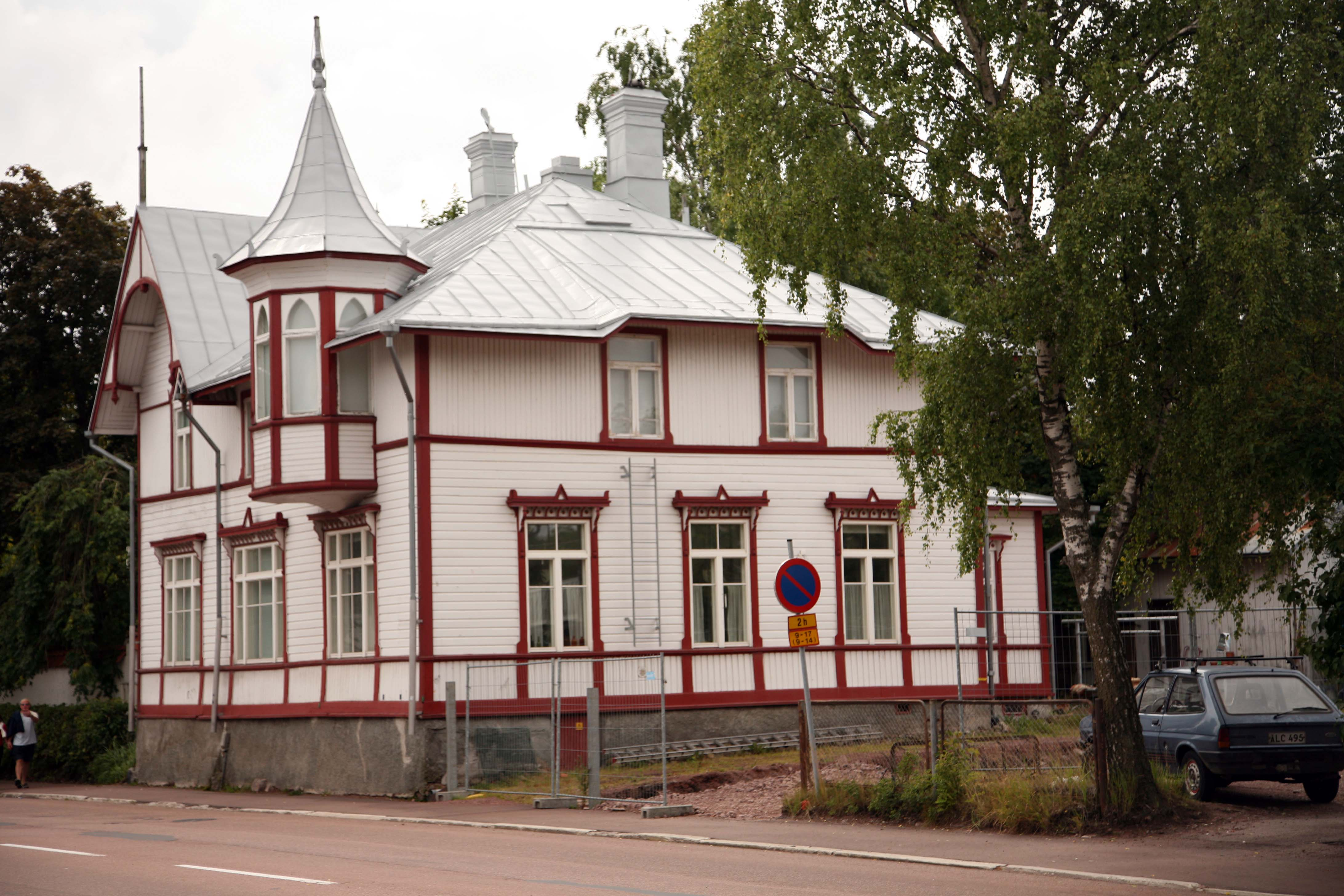 Wooden villa in Mariehamn, Finland, designed by Hilda Hongell in 1897.